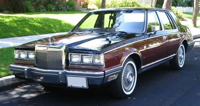 1982 Lincoln Continental sedan